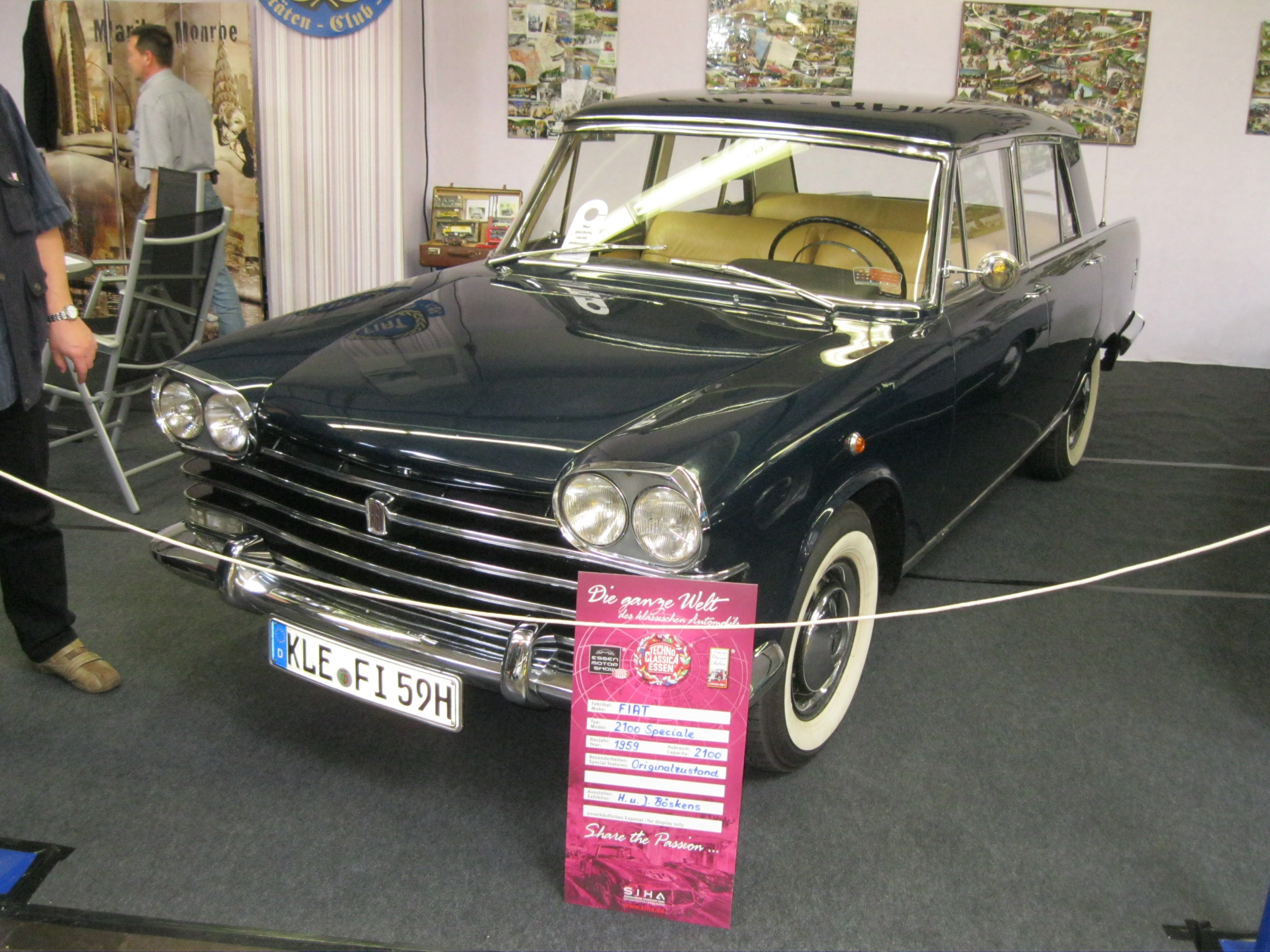 Rare 6 cylinder saloon, spotted at Techno Classica Essen in 2012.